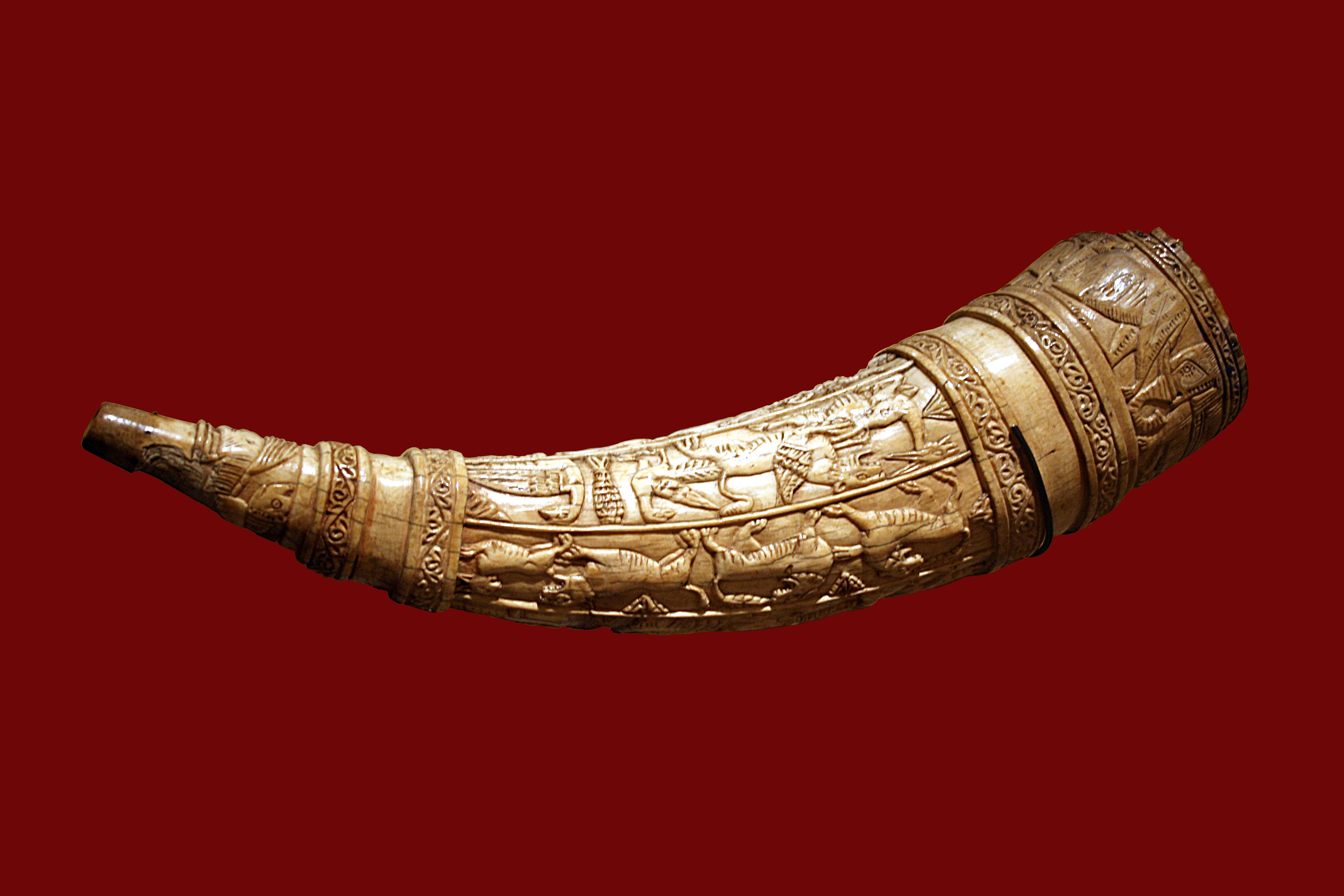 Olifant carved in an elephant tusk (Height: 0.48 cm - Width: 0.16 cm - Weight: 1.3 Kg), decorated all over its surface with hunting scenes, dogs, pheasants, elephants and of griffins carved in bas-relief, made around 1200 in Italy, kept in the Army Museum in Paris.